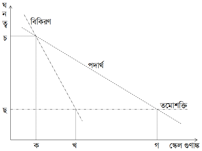 Density evolution of the different elements of the universe. All tags are in Bangla language. You are welcome to translate.